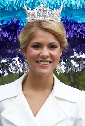 Stephanie Delany, Miss America 2008, at the Cherry Blossom Festival